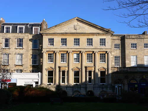 The Exterior Facade of The Clifton Club